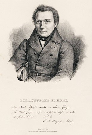 Johann Martin Augustin Scholz (1794-1852) kath. Priester und Theologe